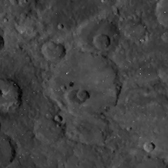 Ustad Isa crater on Mercury. Cropped from Mariner 10 image 0167015.